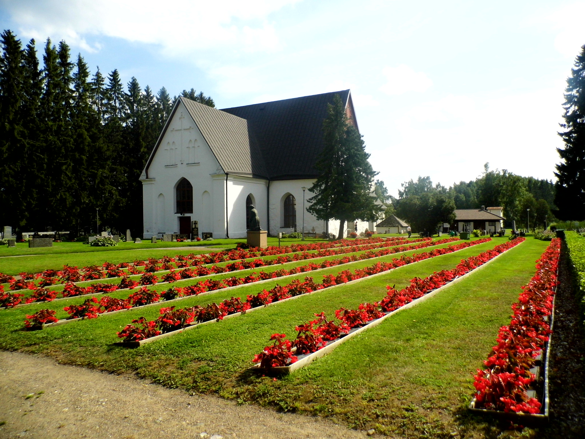 Military cemetary at Pattijoki church, Finland